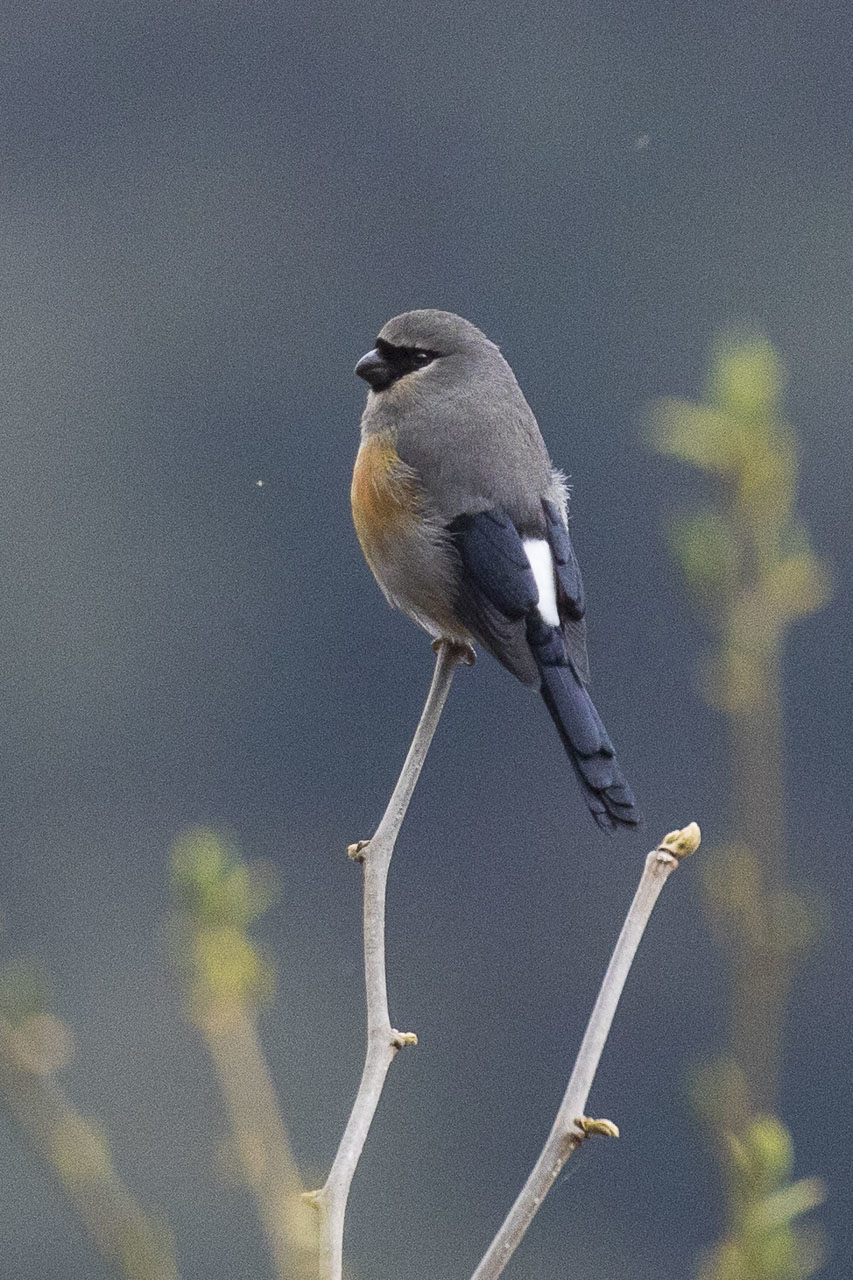 Grey-headed Bullfinch - Eaglenest - India_FJ0A1250